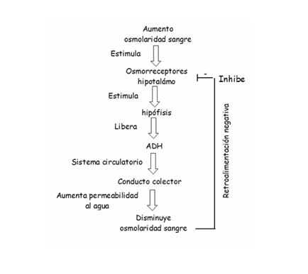 Negative feedback control of antidiuretic hormone (ADH) secretion